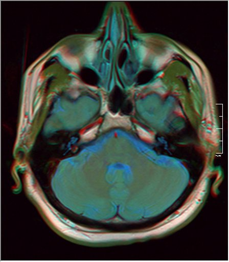 Brain MRI, 36M